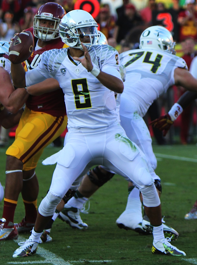 Oregon Ducks QB Marcus Mariota during a match vs. USC